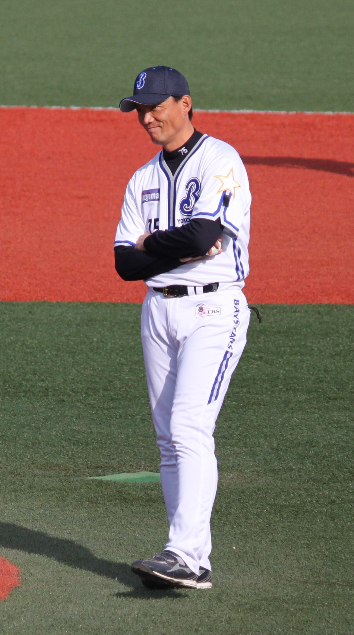 Takeo Kawamura, pitching coach of the Yokohama BayStars, at Yokosuka Stadium.